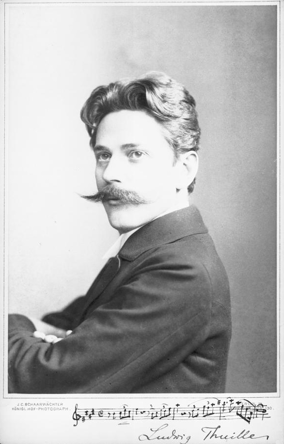 Ludwig Thuille (1861-1907), austrian composer